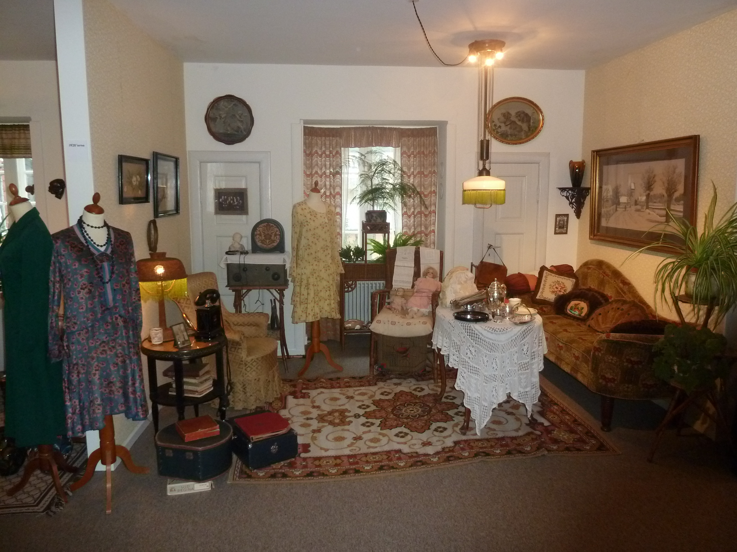 The museum Tidens Samling (Collection of the time) in Odense, Denmark. Danish living room from the 1920s.